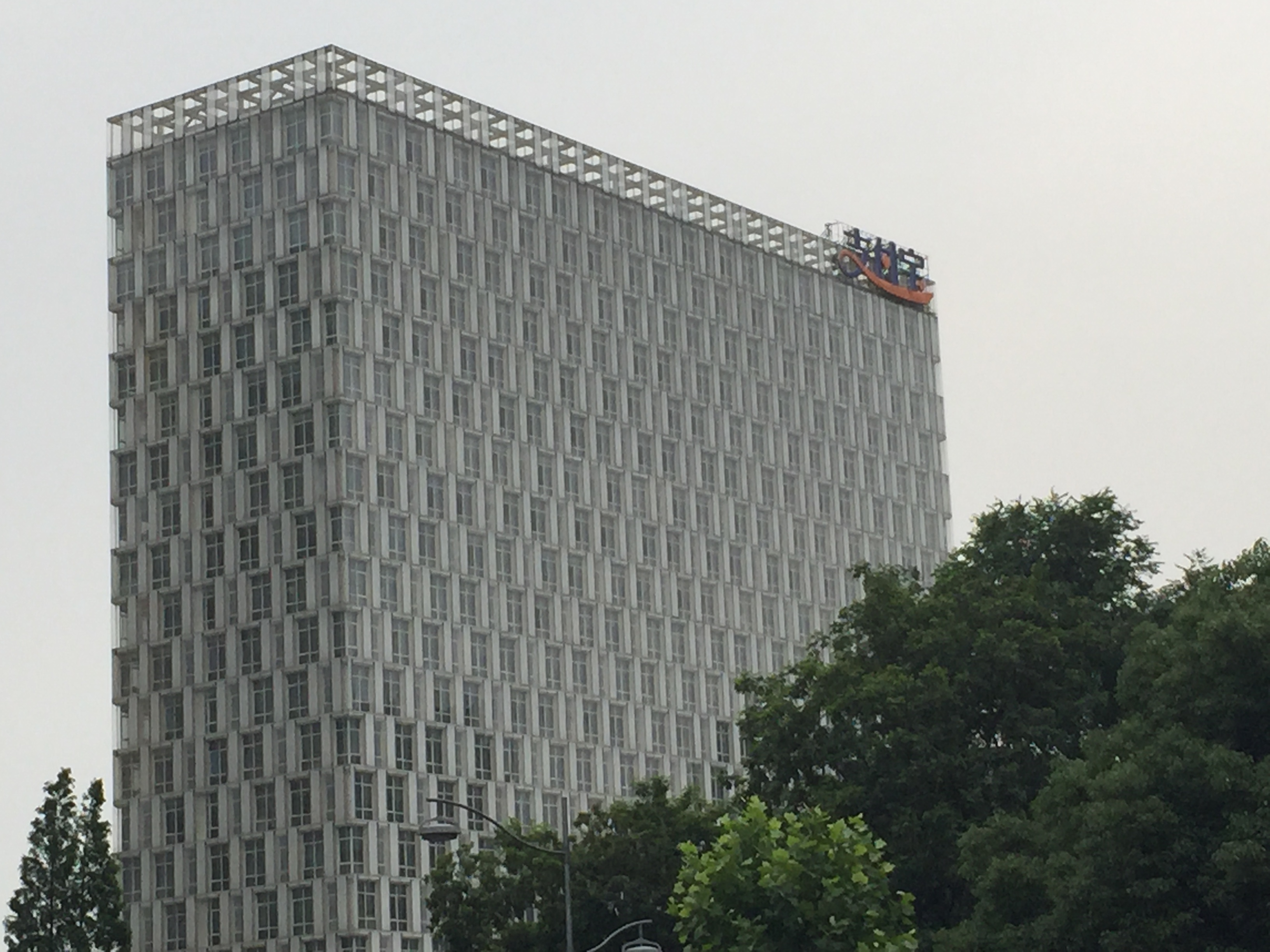 Alipay HQ